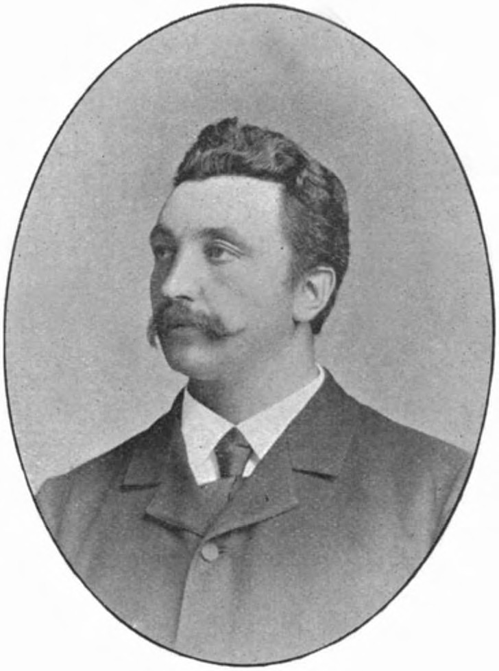 nameDr. D. Bos, political affiliationFree-thinking Democratic League positionmember of the House of Representatives of the Netherlands electoral districtWinschoten